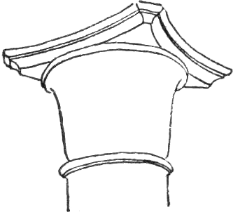 Corinthian capital, from Nordisk familjebok. Image in public domain.